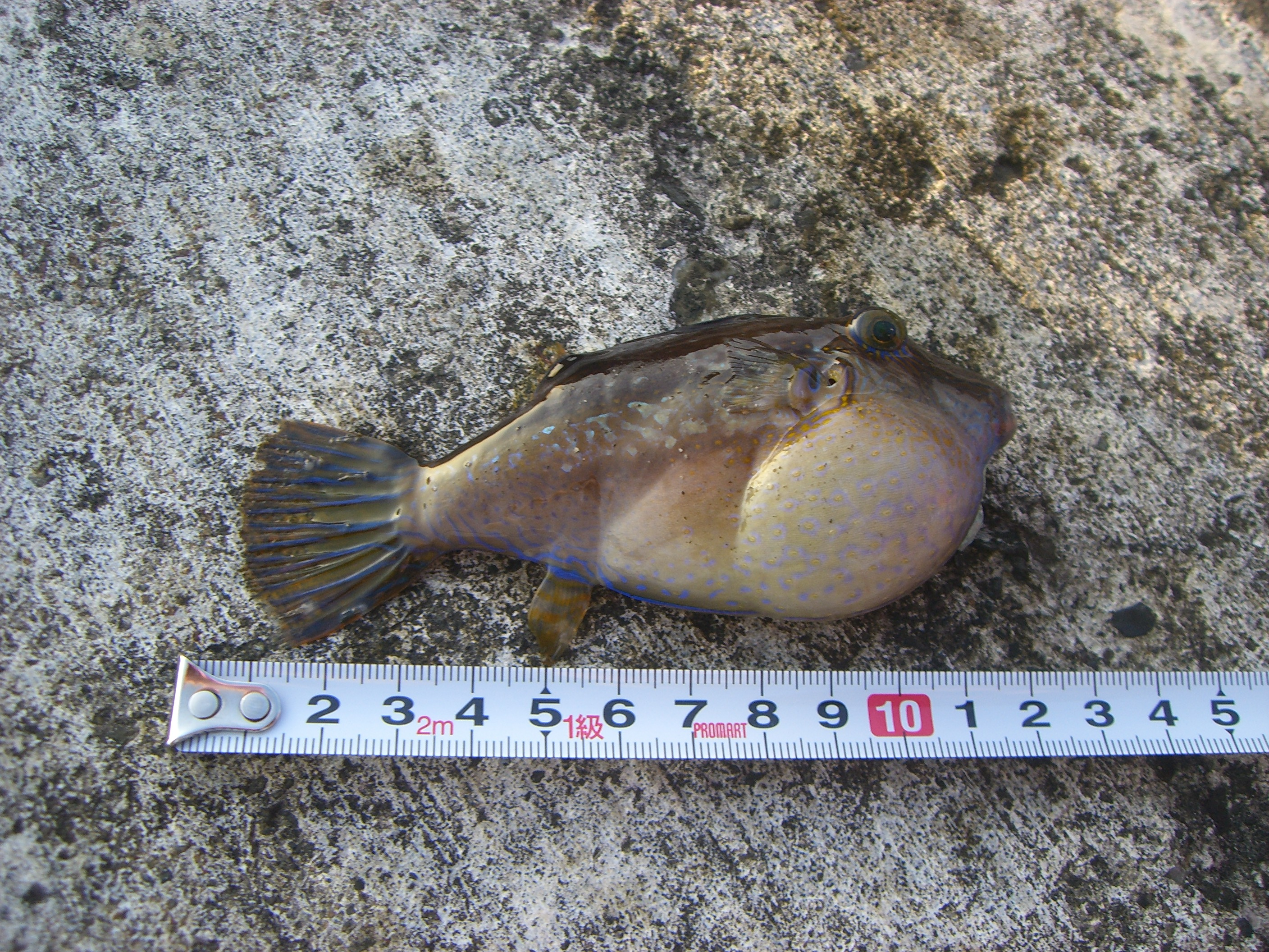 Sharpnosed puffer（Canthigaster rivulata）